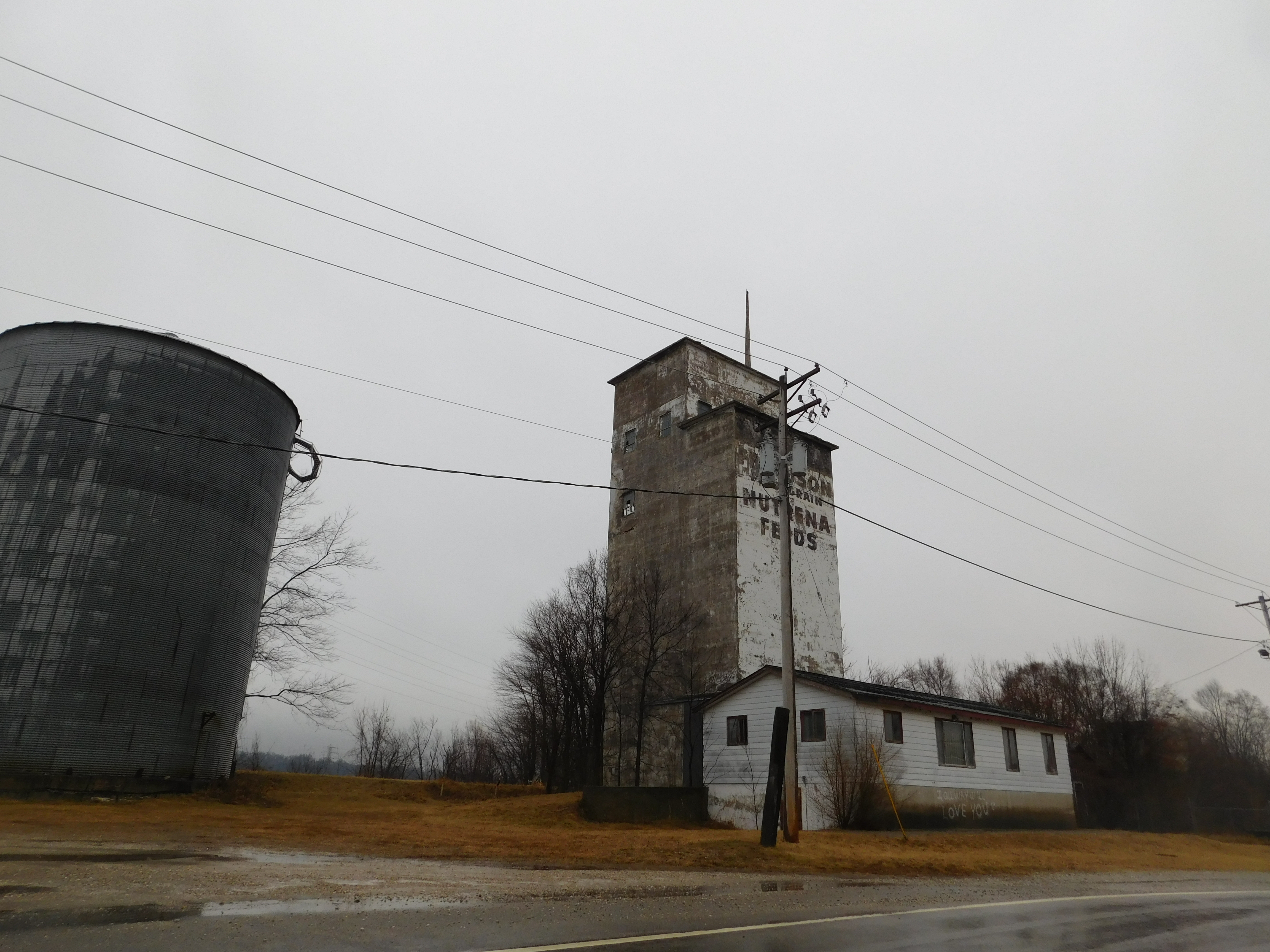 The Niota, Illinois grain elevator with former company logos on it.